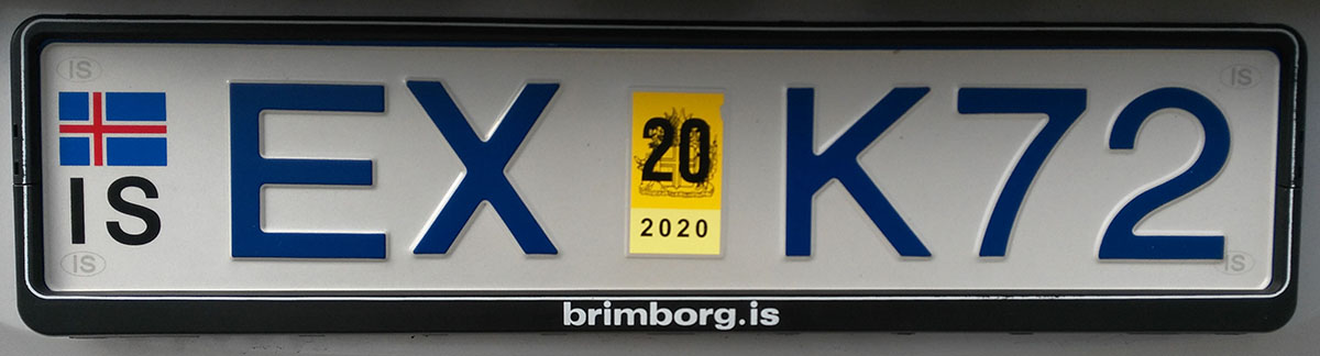 Icelandic license plate model from 2007.